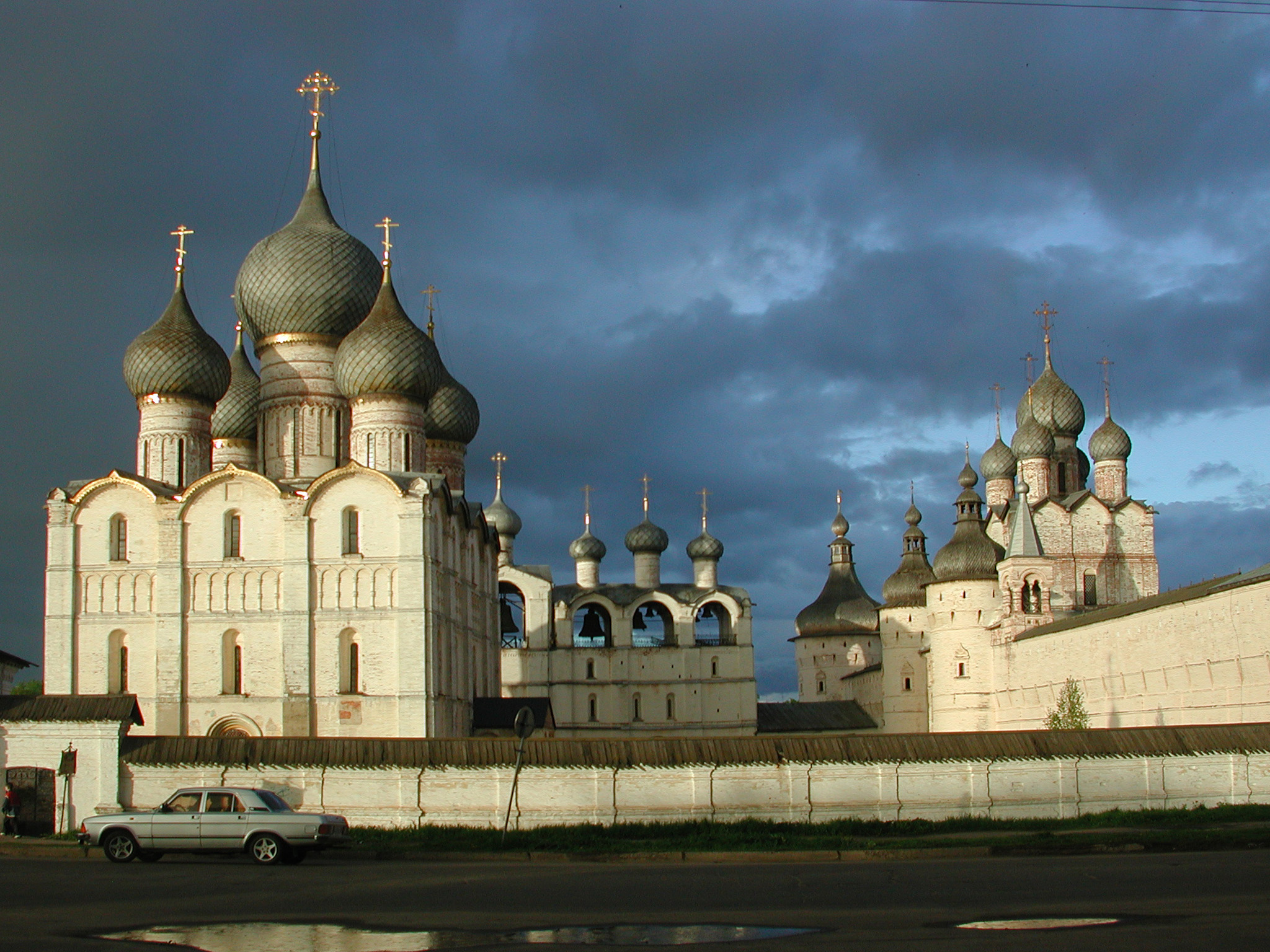 Partial view of the Rostov Kremlin, Yaroslavl Oblast, Russia.